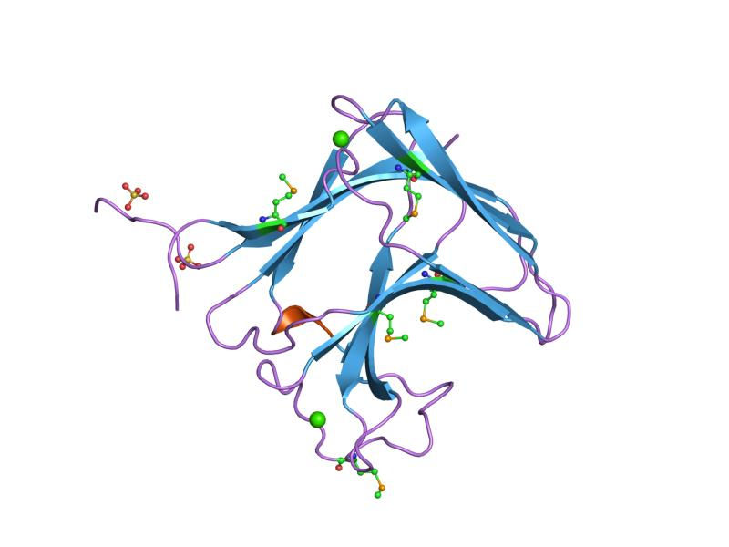 Cartoon representation of the molecular structure of protein registered with 1v0a code.